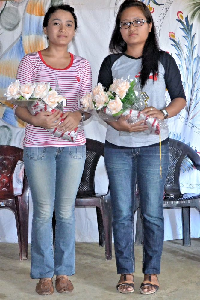 Two brilliant alumni of Nuchhungi ENglish Medium School, Hnahthial who stood third and first in the whole of Mizoram state in University Exam. Mizo ţawng: Nuchhungi English Medium School, Hnahthial-a kal thin, University Exam-a Mizoram puma pathumna leh pakhatna.